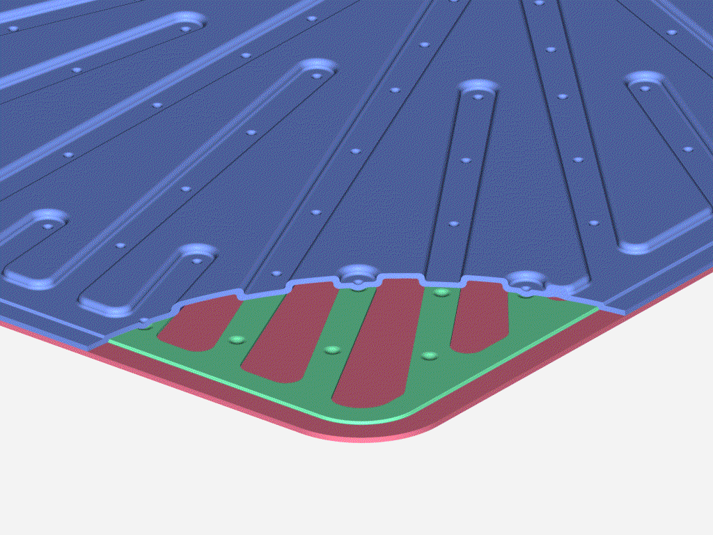 500 Micron Thick Flat Heat Pipe, or Vapor Chamber History of Image:IsoSkin.gif 2008-02-18T07:04:57Z Jesse Viviano (Talk